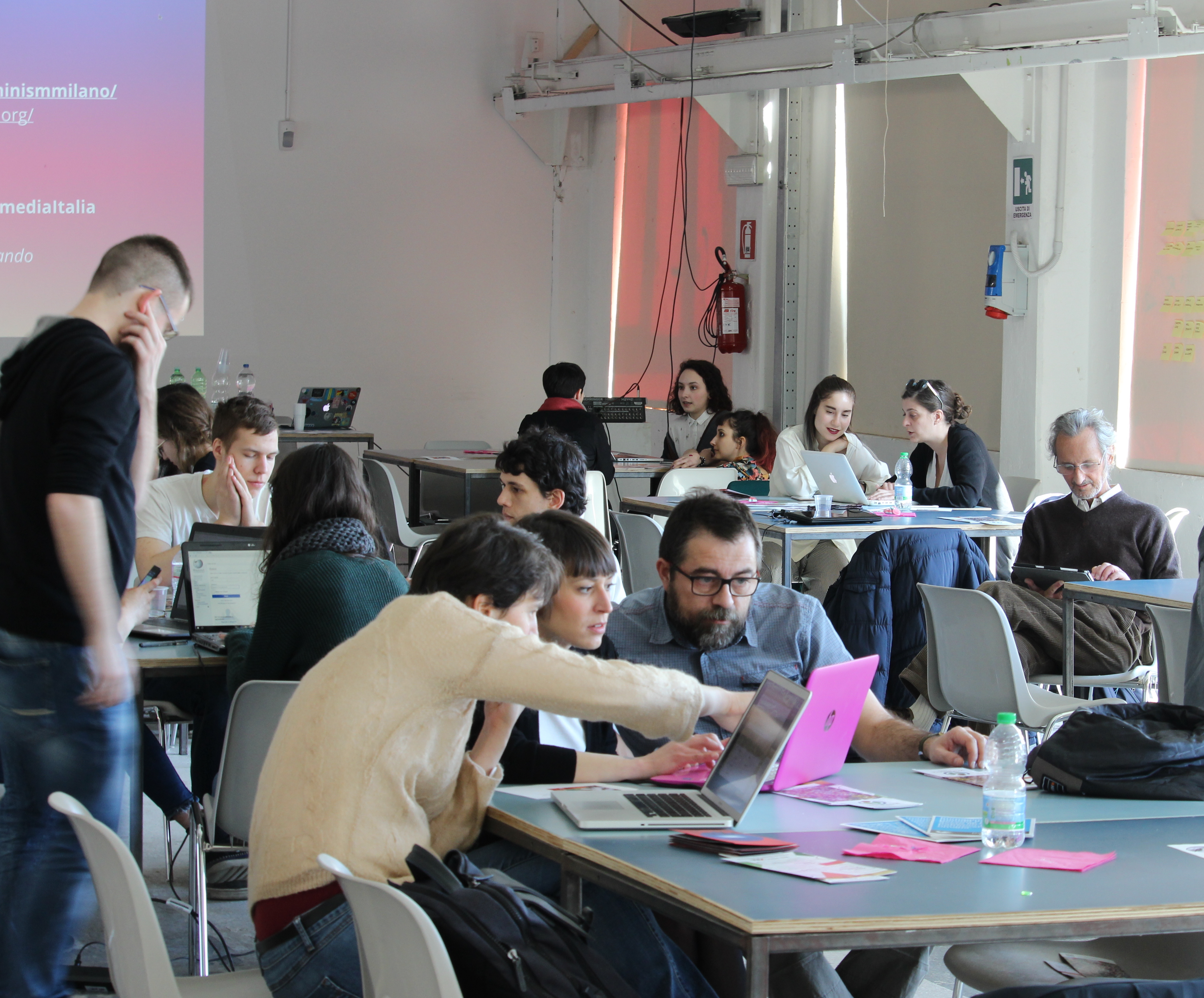 Helping new editors